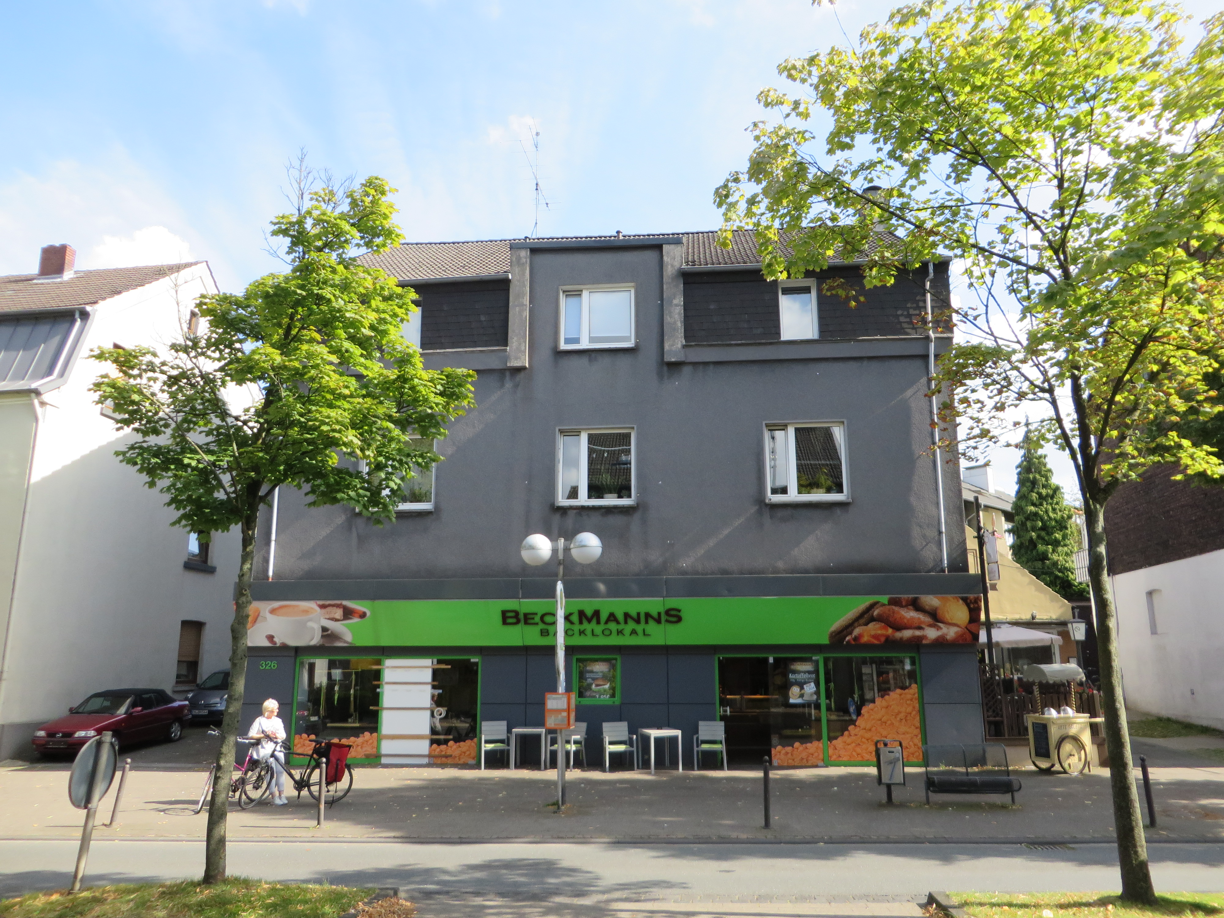 House Hörder Straße 326 in Witten, Germany